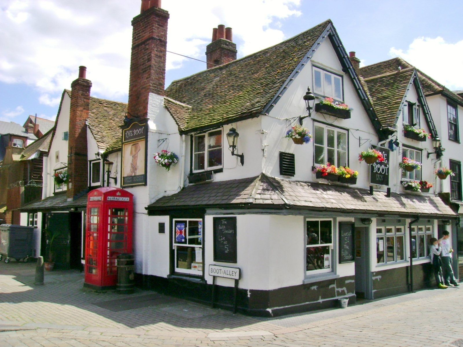 The Boot, 15th century pub in St Albans built around 1420 the pub would have witnessed the battle of St Albans on 22nd May1455, the first battle in the War of the Roses. The Boot is first recorded as a licensed house in 1719 and although sometimes referred to as the "Boot Inn" it had never been more than an Alehouse and then a Public House, a term first used in St. Albans around 1800. It was not until around 1960 that the Boot occupied the whole of the premises. Today there is one bar suitable for both eating and drinking, continuing the Boot's three hundred years of hospitality.